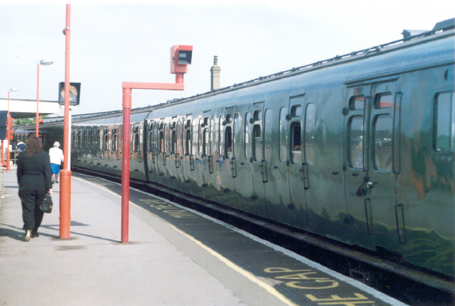 Lewisham. This train was comprised of 2 sets of vehicles, each of different colours. Unfortunately, I can't remember what they were and, because I had to take the photograph on the shaded side, they don't show up, terribly well.